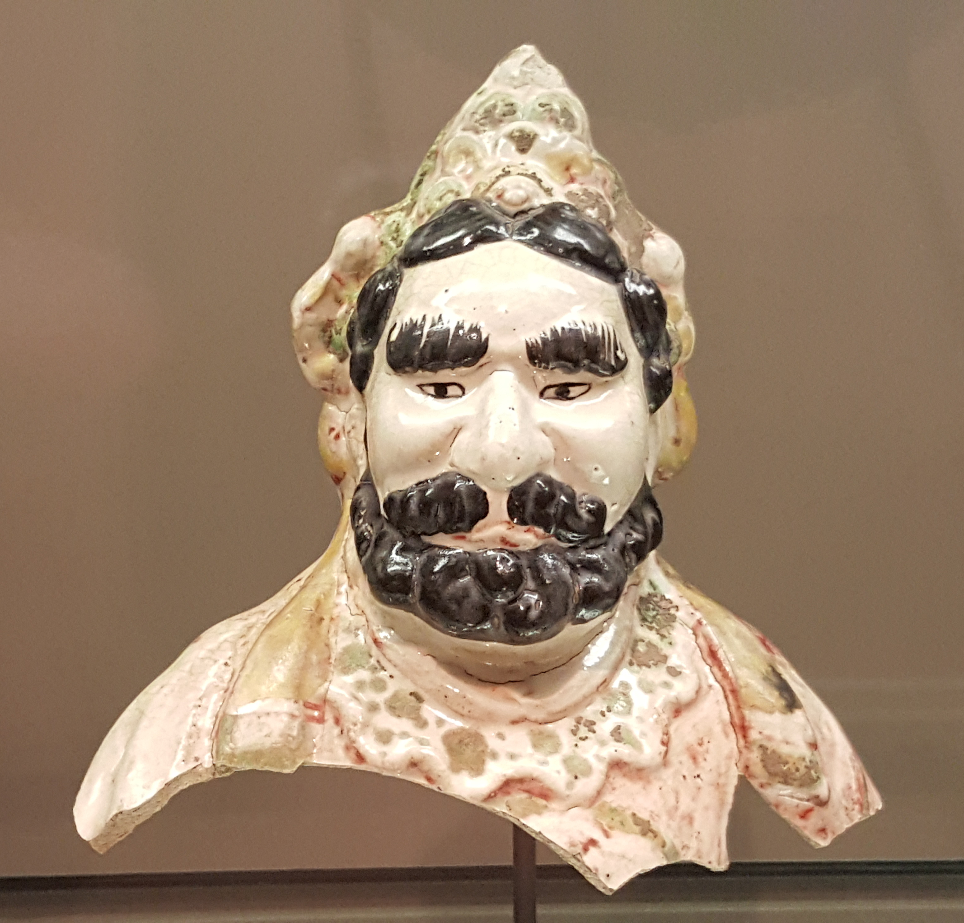 From the permanent collection of the Musée Cernuschi, Paris, France, which states that the object was collected in 1924 from a Sui Dynasty tomb robbing and completely misascribes the identity of the subject as a possible 'Taoist Immortal'. (Hat, facial hair and structure make this clear)